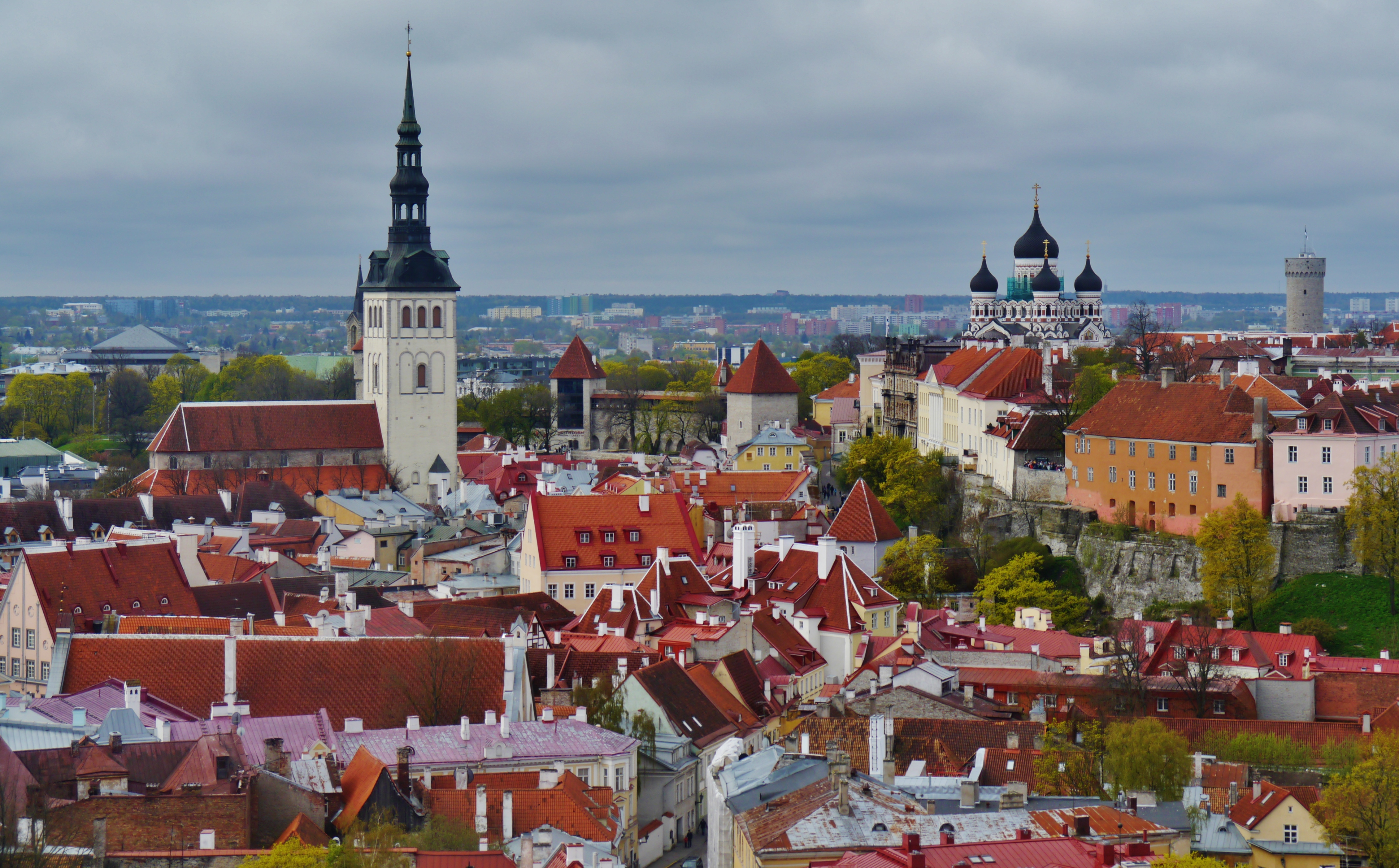 View from St. Olaf's Church, Tallinn, Estonia